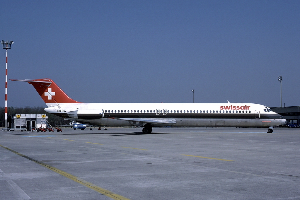 "Dübendorf"